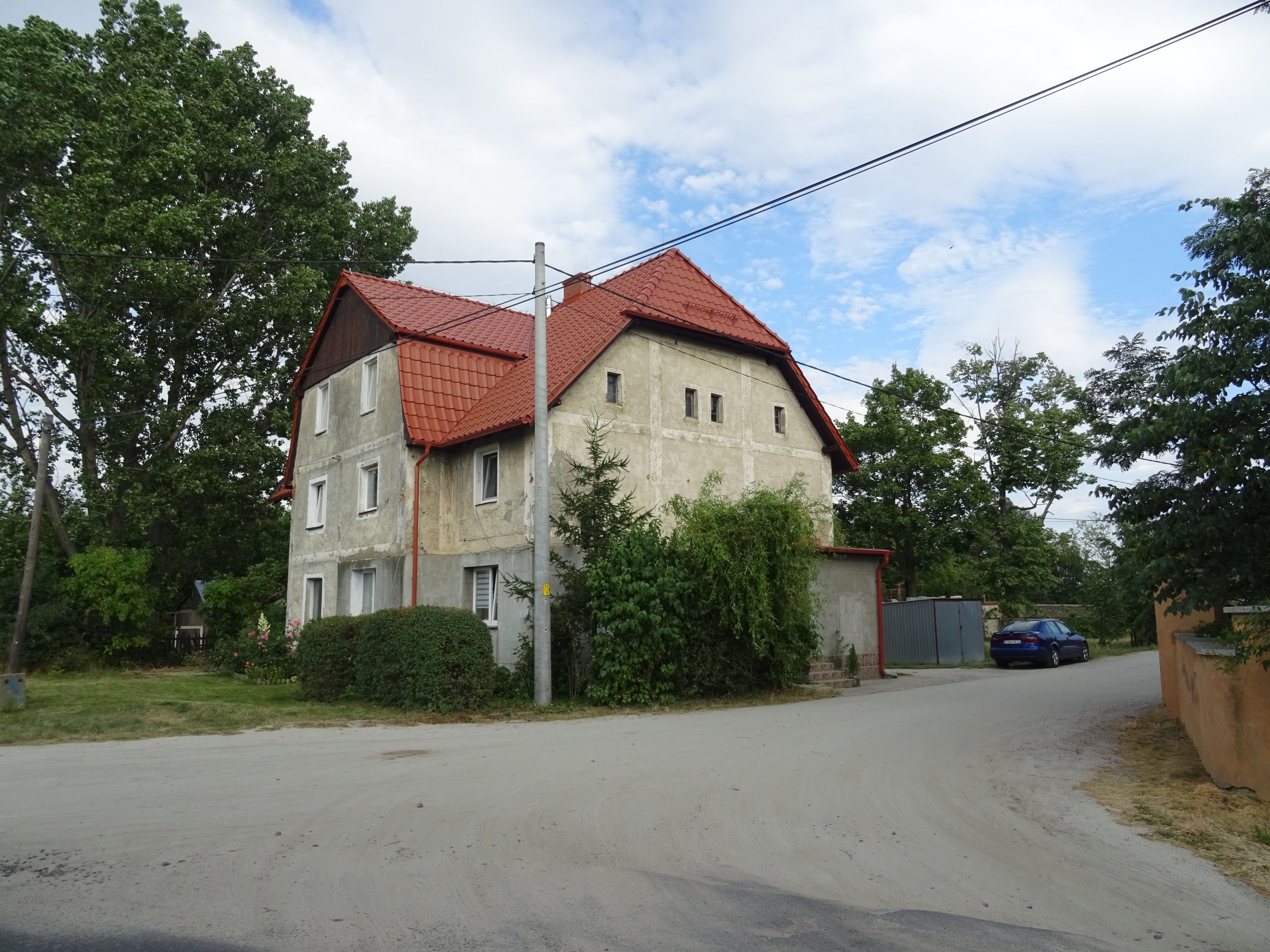 This photograph was created as a part of Wikiexpedition Lower Silesia, a project supported by Wikimedia Poland grant.